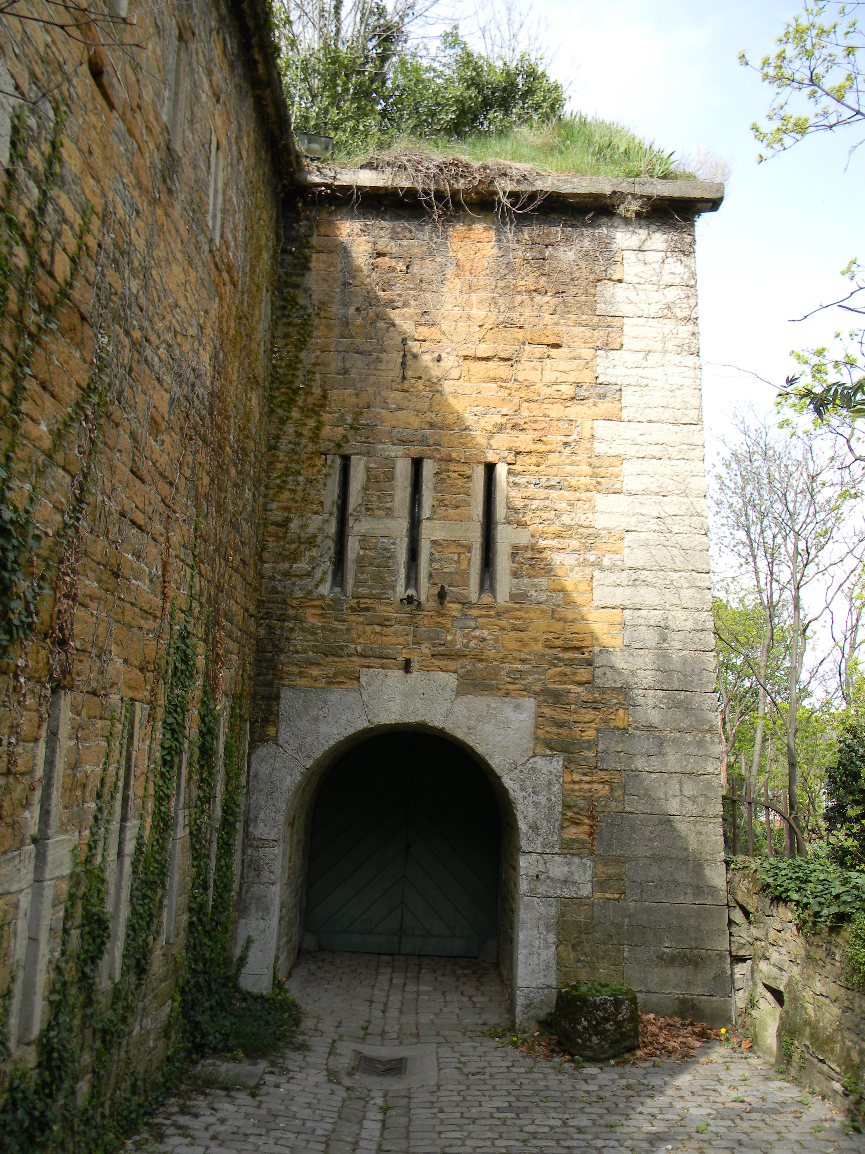 Entrance of the Vaise fort, in Lyon